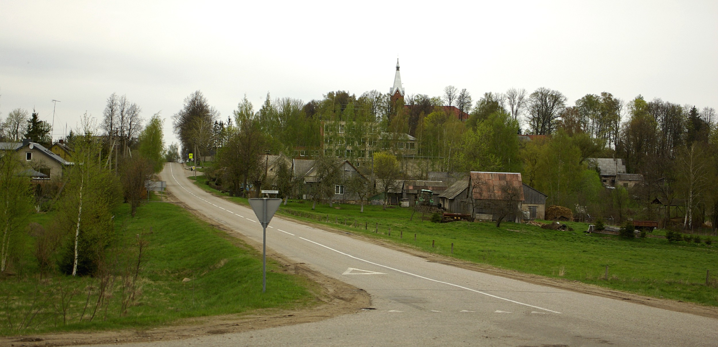 Gražiškiai town (Vilkaviškis district, Lithuania).